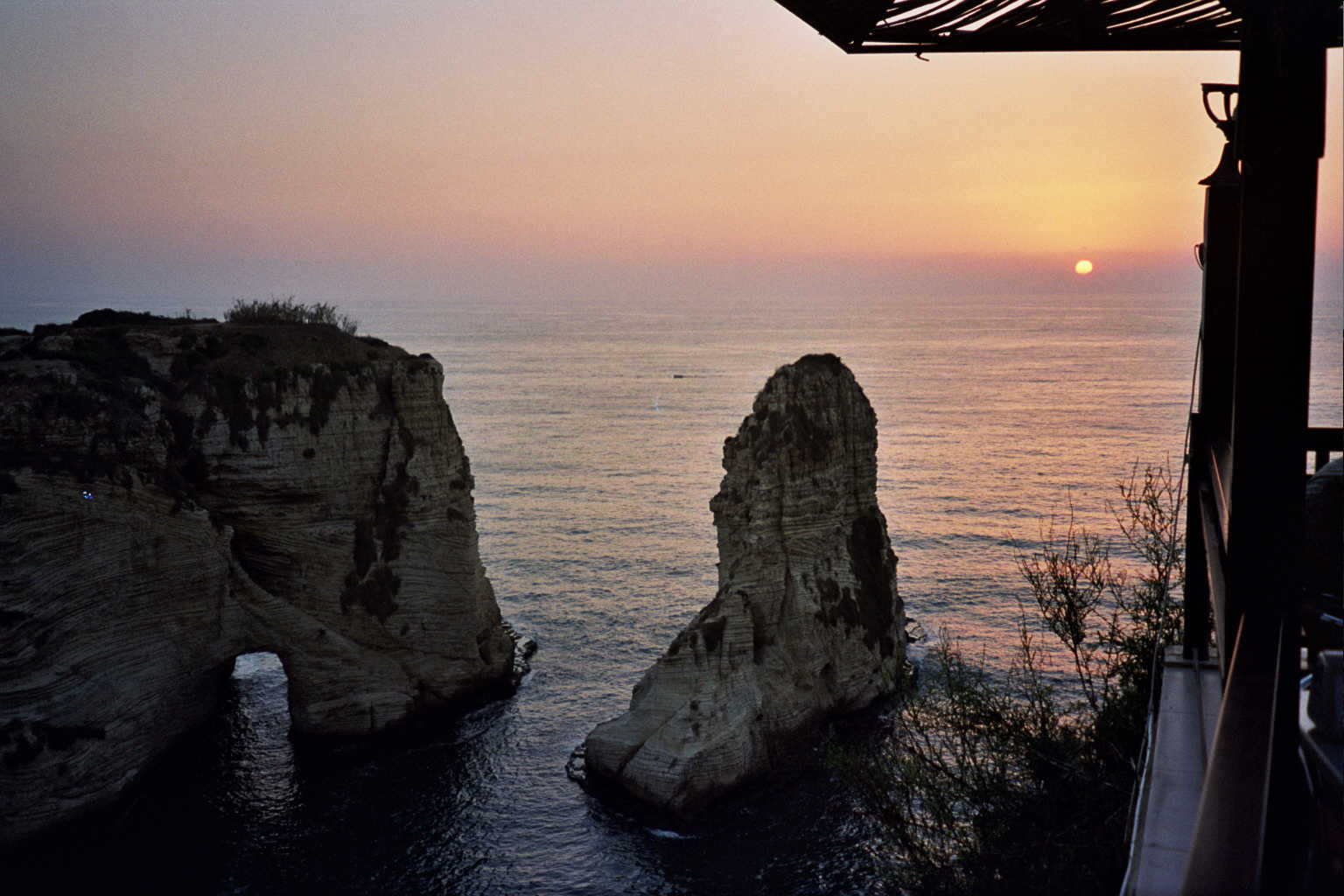 how 'bout that? the sun is getting even settier!